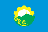 Arseniev (Primorsky kray), flag